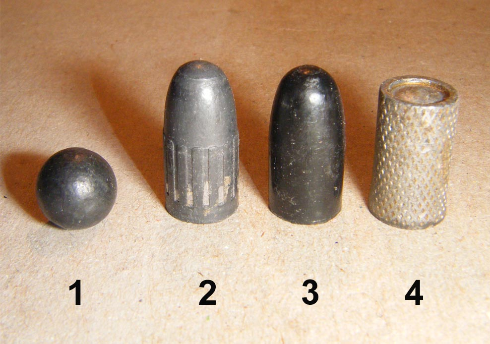 Bulletts 9 mm.